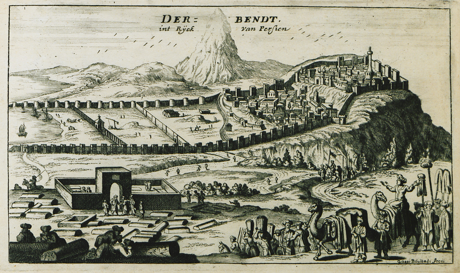 Jacob Peeters. Description des principales villes, havres et isles du golfe de Venise du coté oriental. Comme aussi des villes et forteresses de la Moree, et quelques places de la Grèce, Antwerp, Sur le marché des vieux Souliers, 1690.